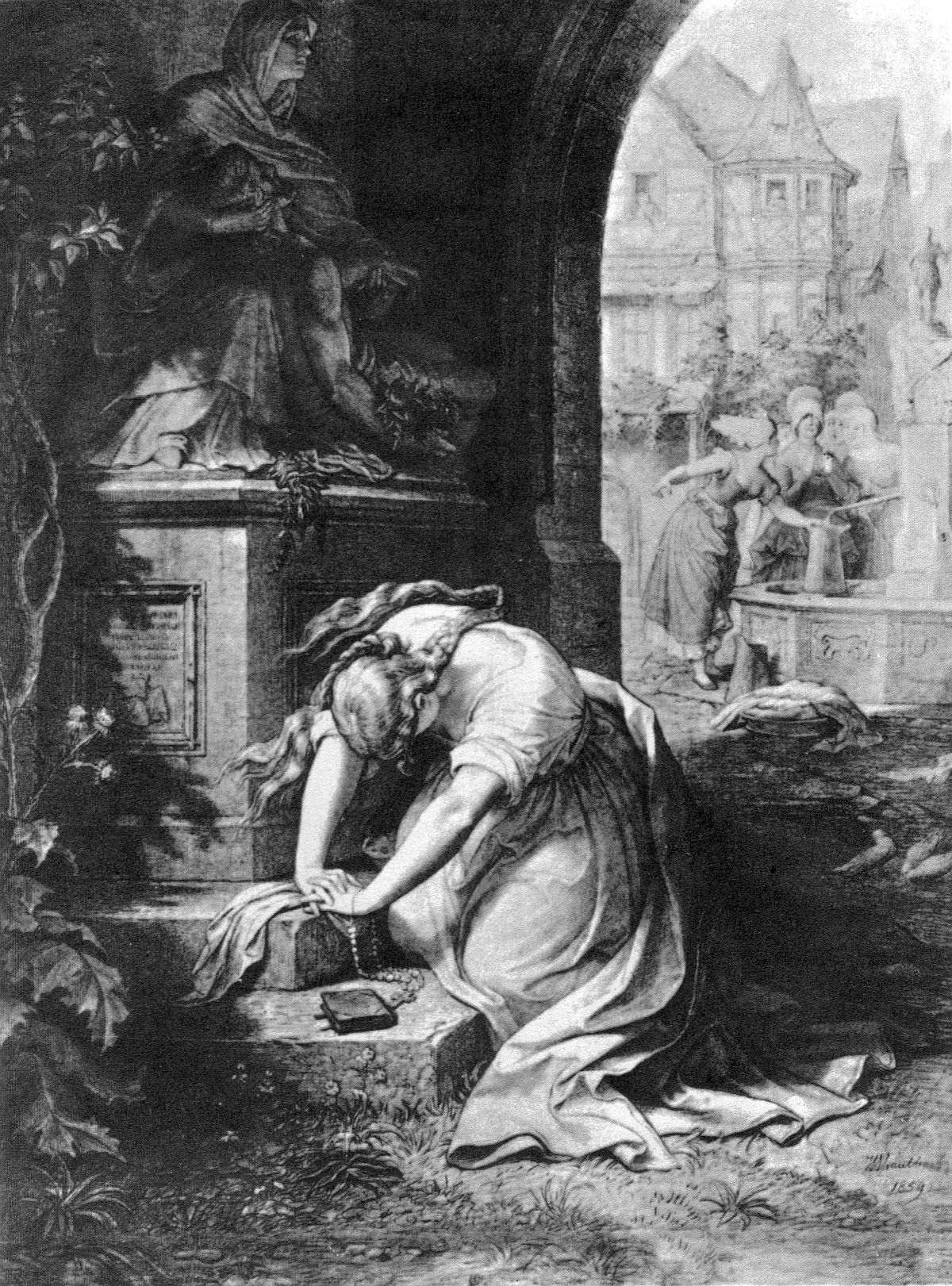 Gretchen in front of the Mater dolorosa, photogravure of an illustration by Wilhelm von Kaulbach after “Faust” by Goethe